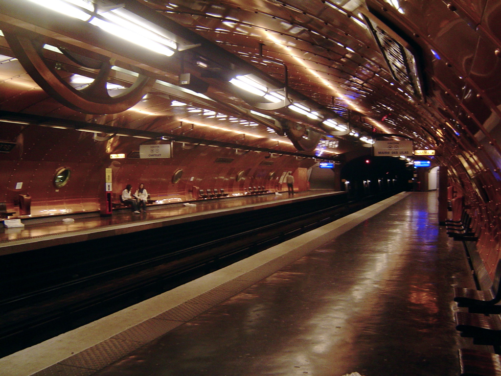 Arts et Métiers, a stop in the Paris subway system.